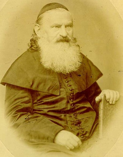 A photograph of Leopold Löw, taken before 1875.